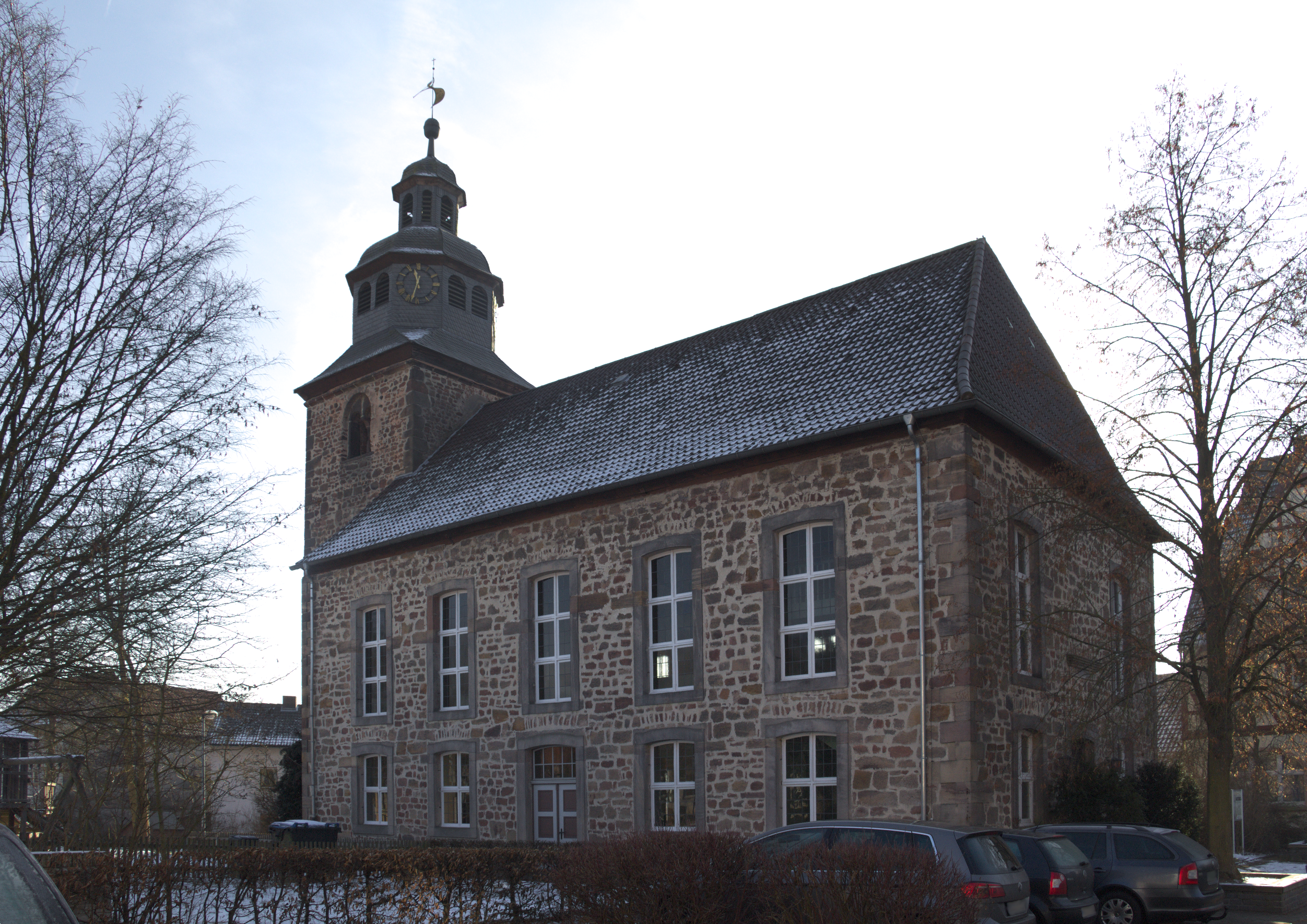 Protestant Church in Niederaula, Hersfeld-Rotenburg, Hesse, Germany